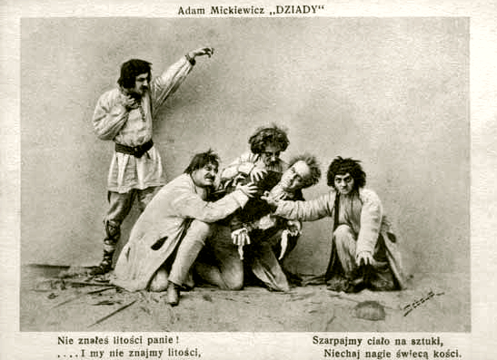 Postcard (published by Salon Malarzy Polskich - The Polish Painters Association) with a photography by Józef Sebald. A scene from Dziady (Teatr Miejski in Kraków, 31.10.1901)